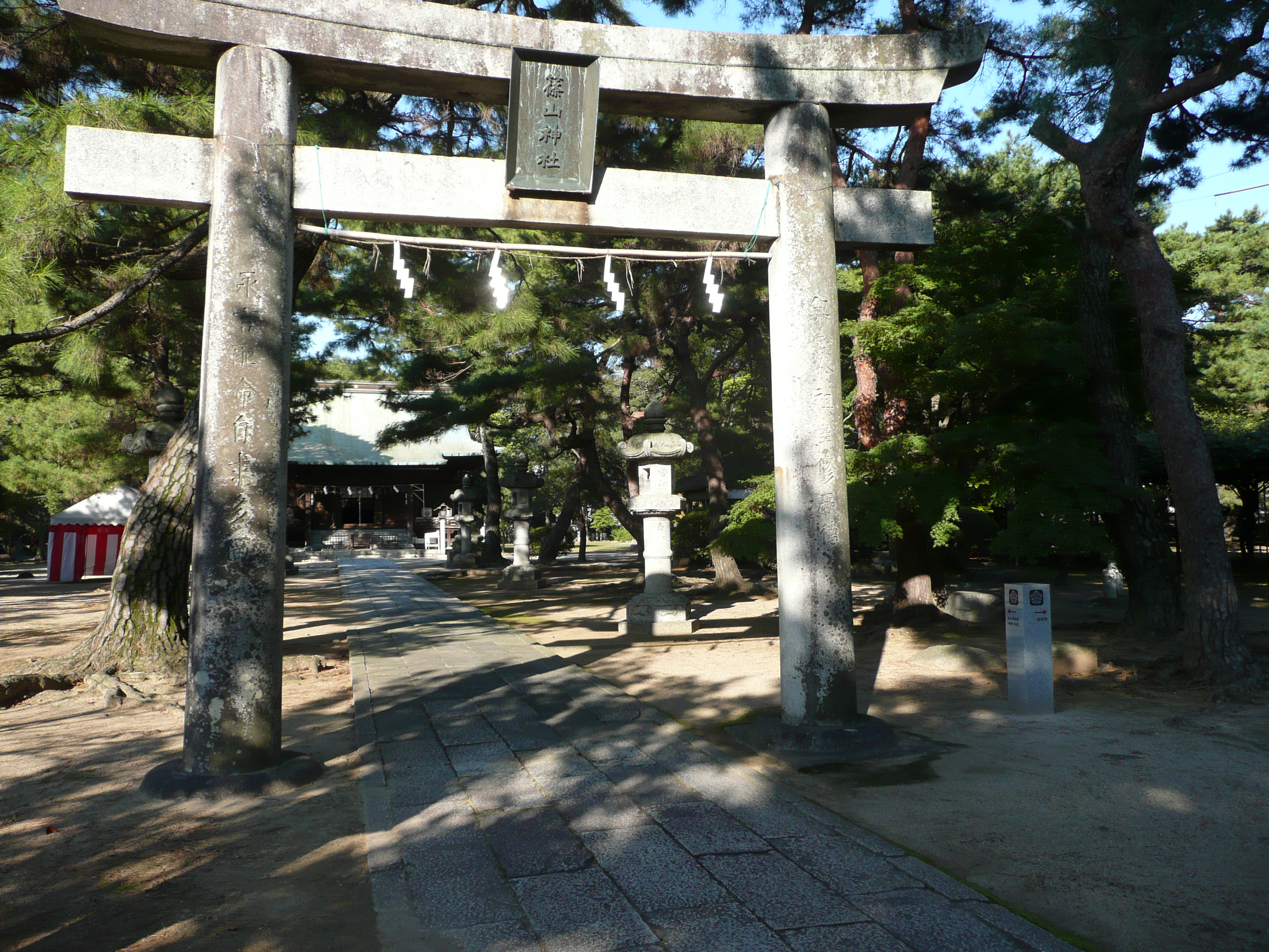 本丸